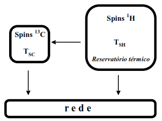 Representação de um reservatório térmico nuclear de prótons.